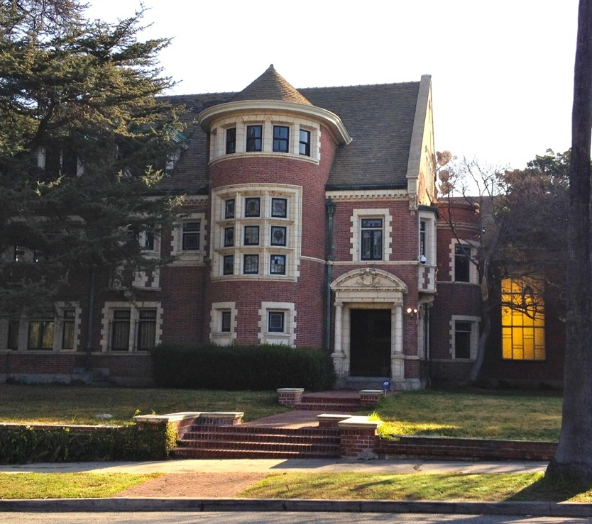 A Walker in LA: Follow me at @gelatobaby